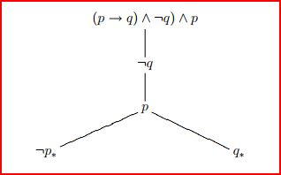 Captura algebra para la edificación